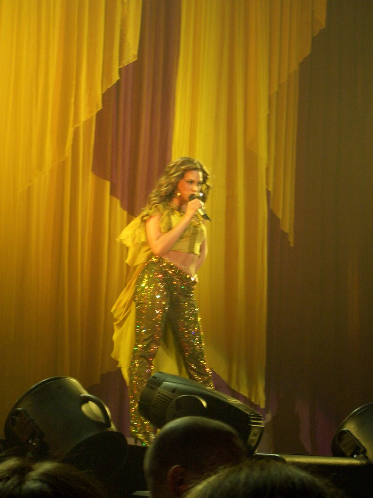 Destiny's Child on tour Destiny Fulfilled ... And Lovin' It in 2005.